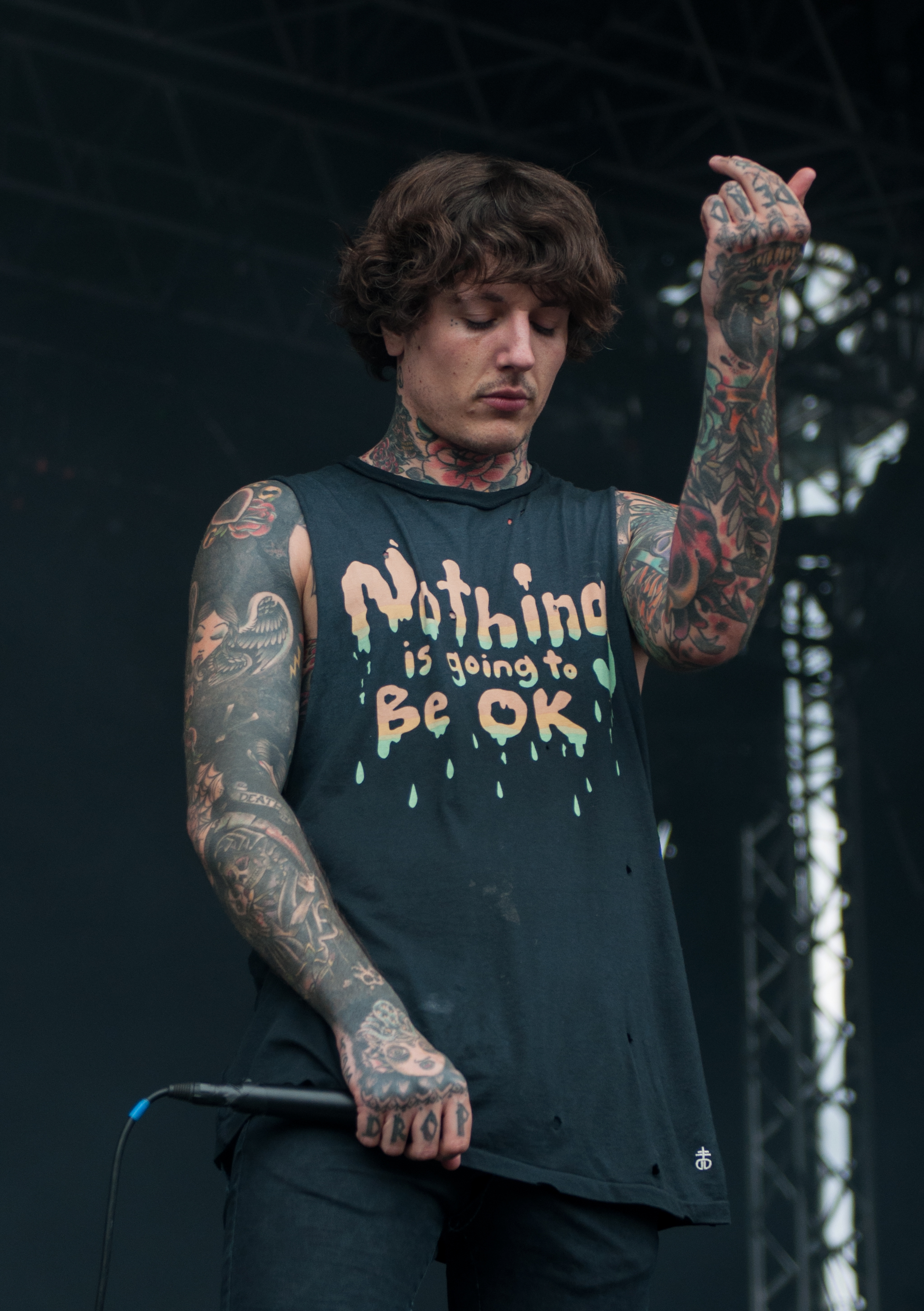 Bring Me the Horizon at Vainstream Rockfest 2014